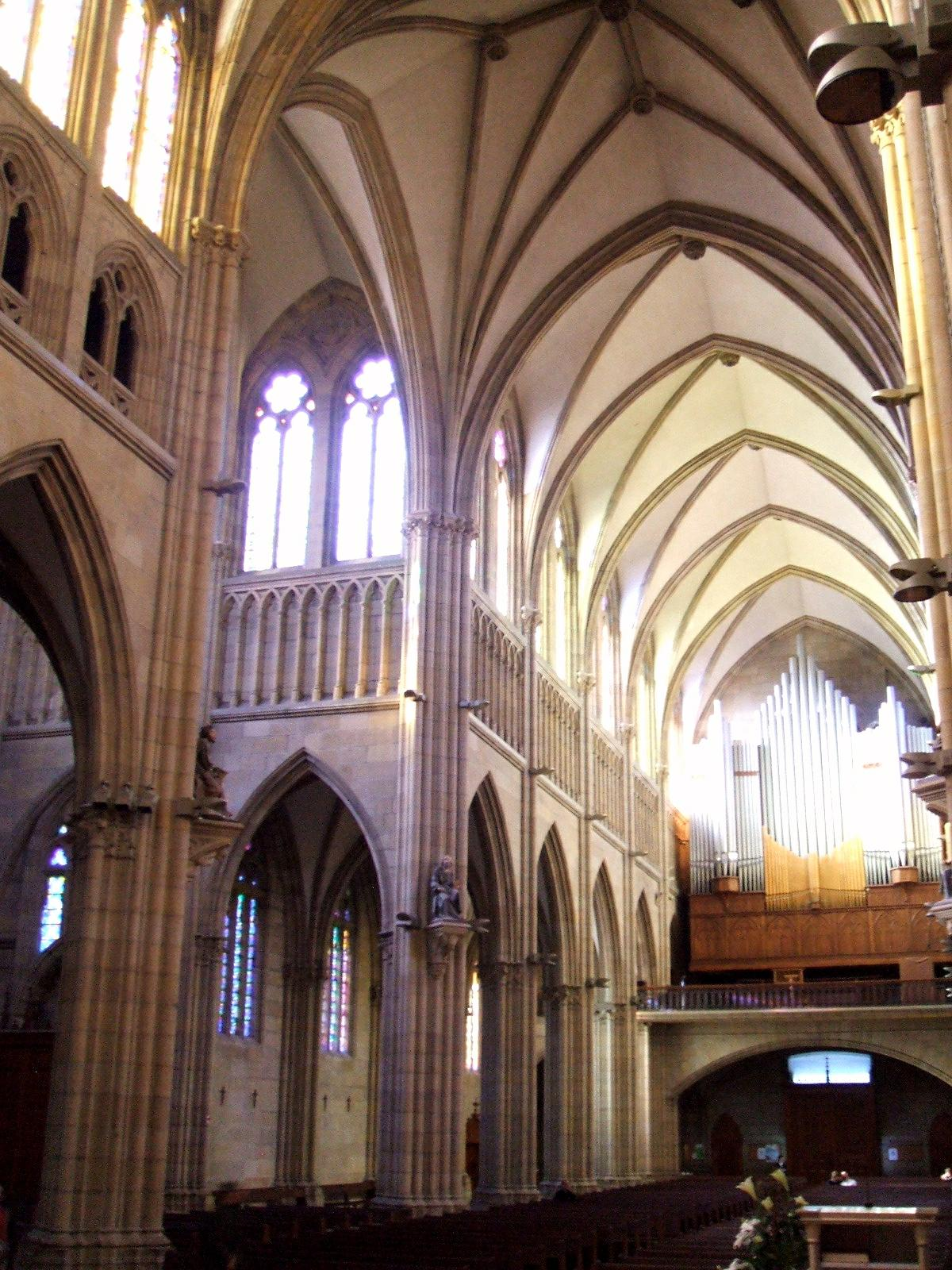 Catedral del Buen Pastor de San Sebastián (Guipúzcoa, País Vasco, España)